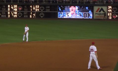 Chase Utley (2B) and Cody Asche (3B) warm-up before an inning in a game on August 22, 2014